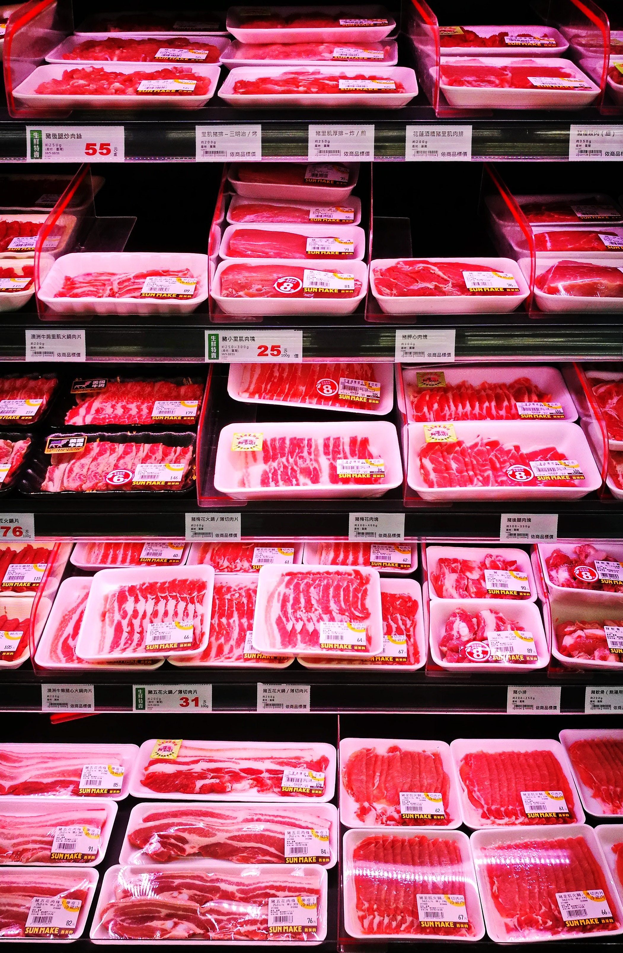 Meat in a meat refrigerator under pink LED lighting (photo taken in PX Mart)